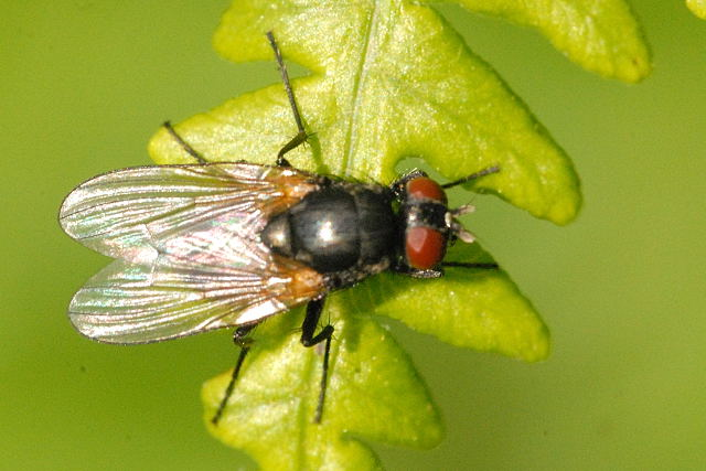 Fannia carbonaria from Commanster, Belgian High Ardennes .